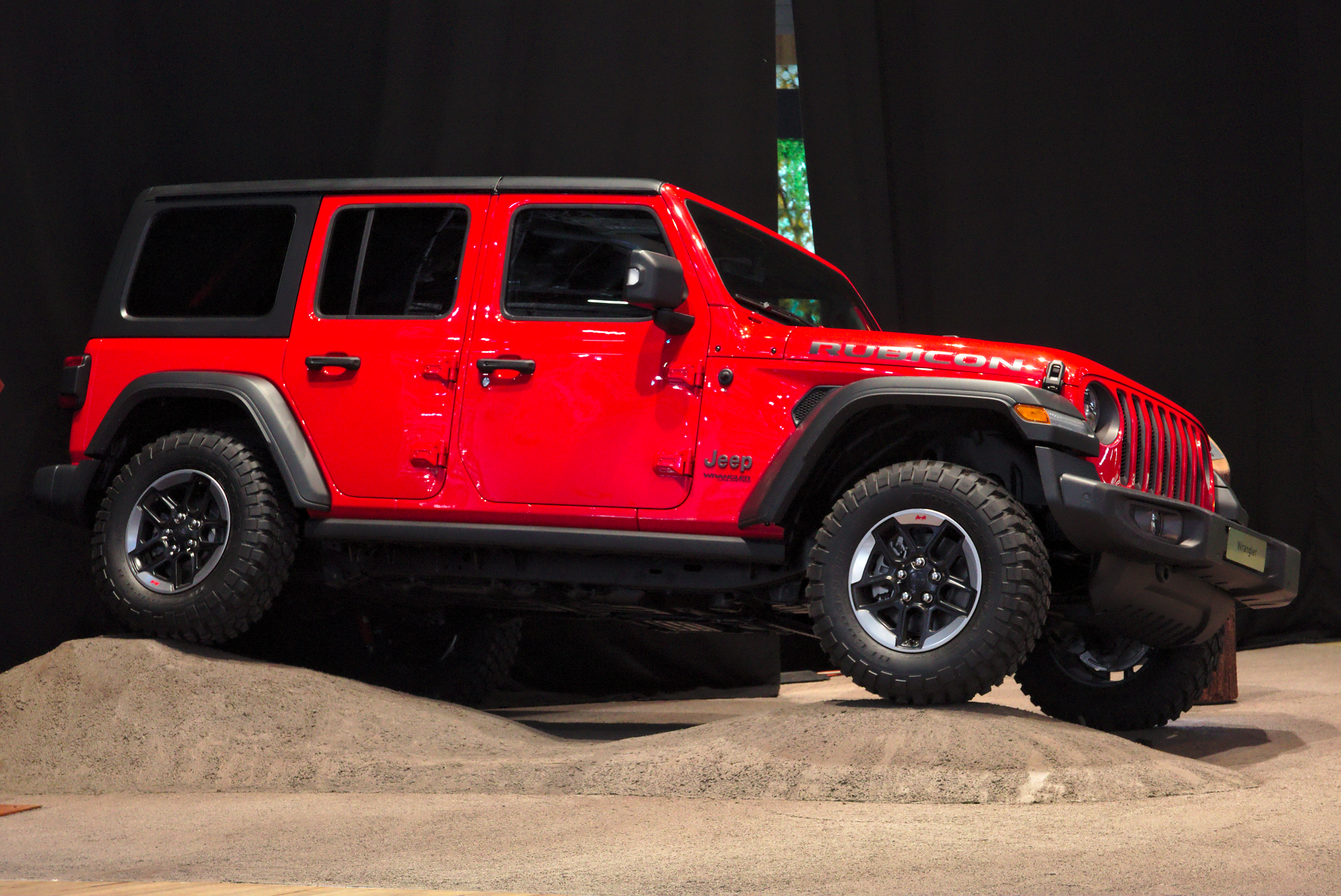 Jeep Wrangler Rubicon at Geneva Motorshow 2018